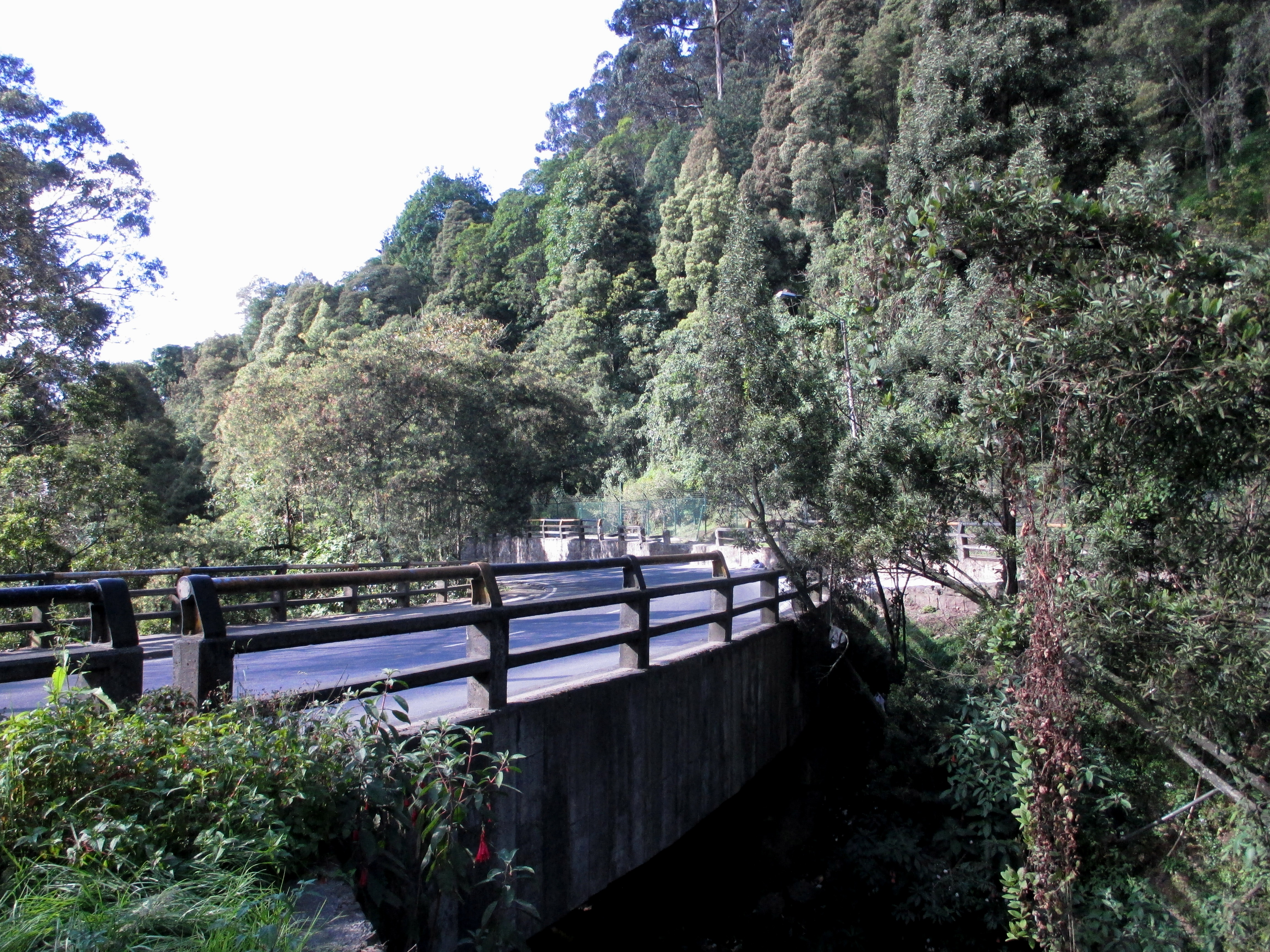 Bogotá